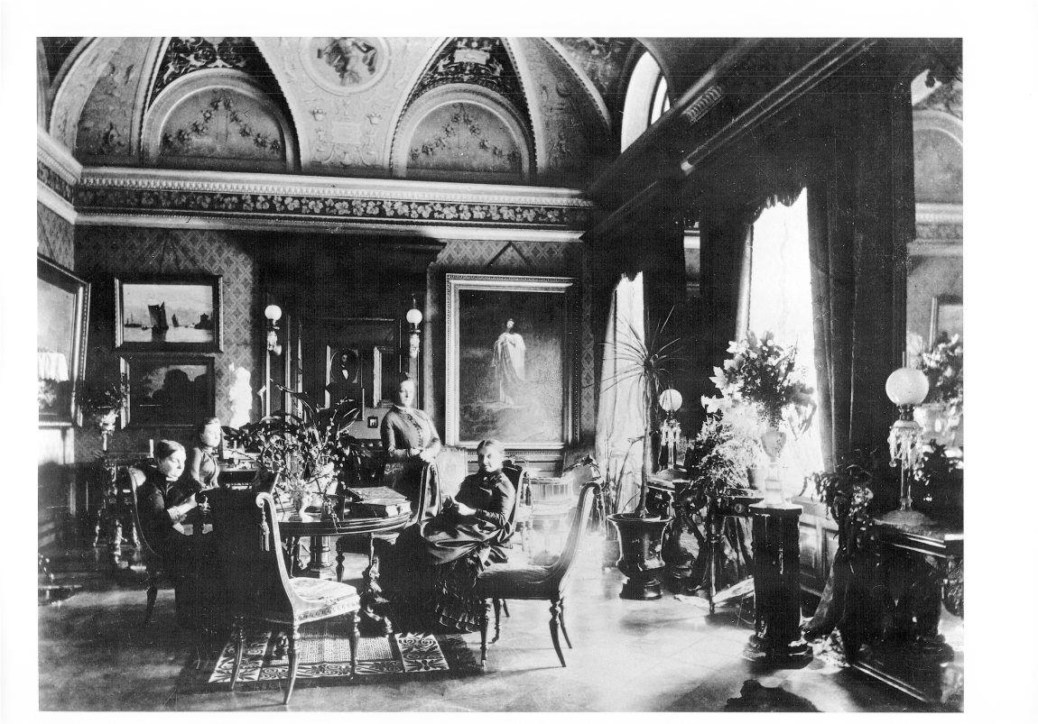 Interior from Familien Adler's home at Ved Stranden 14 in Copenhagen, Denmark